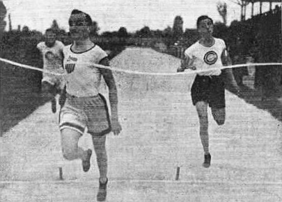 Polish sprinters Władysław Ponurski (left, Pogoń Lwów) and Edward Jakubowicz (Czarni Lwów) in 1912